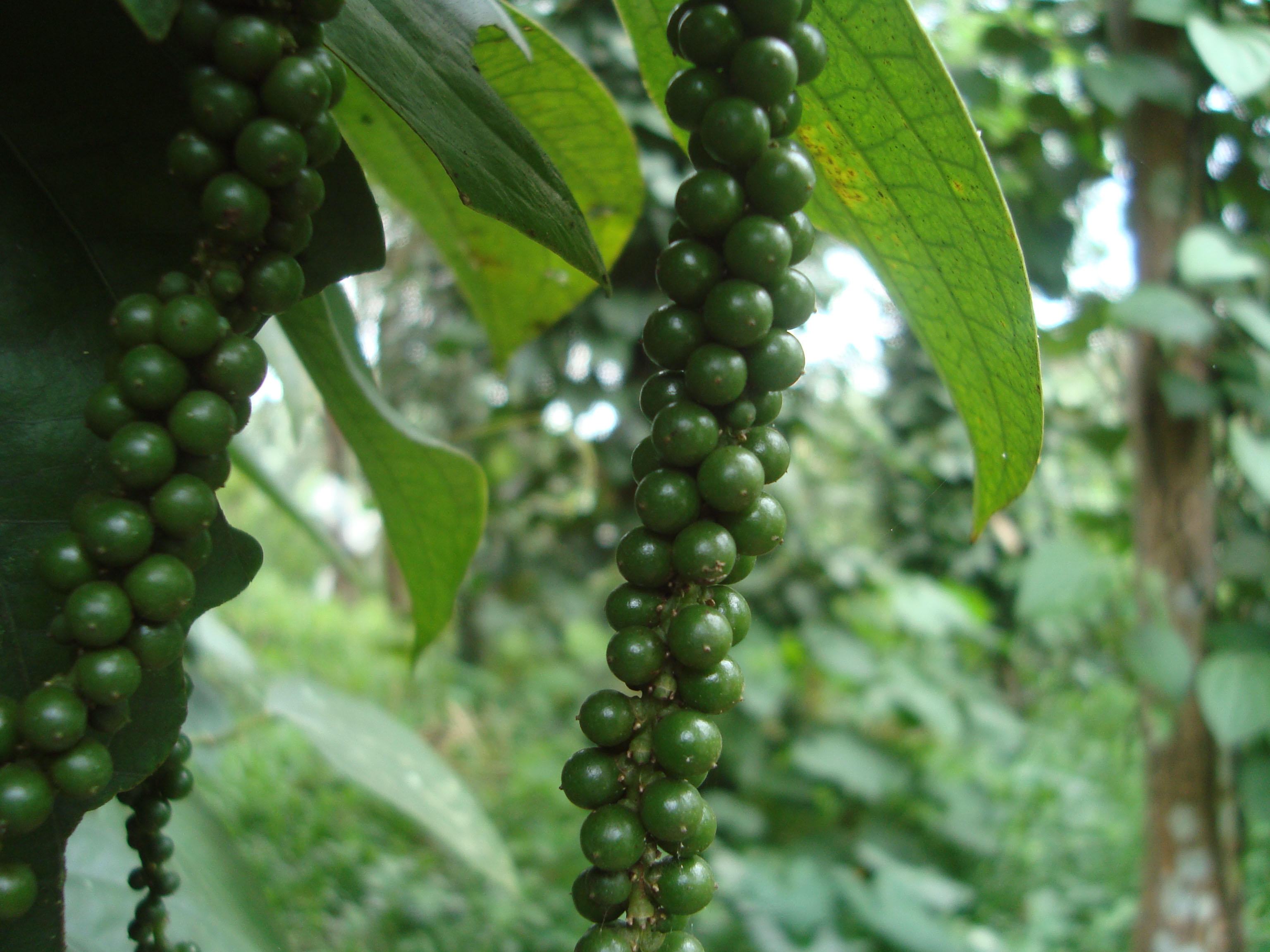 Pepper Before Ripening